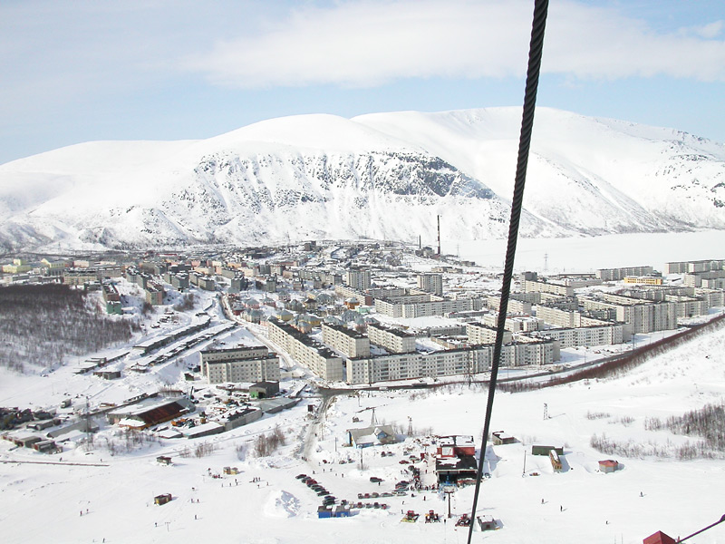 Kirovsk seen from the aerial tramway